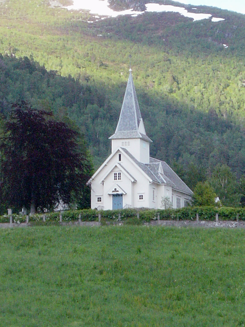 Stranda and the Liabygda kirke